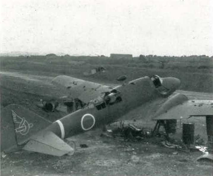 An abandoned Mitsubishi Ki-46 II on Okinawa, Japan, circa in June 1945.